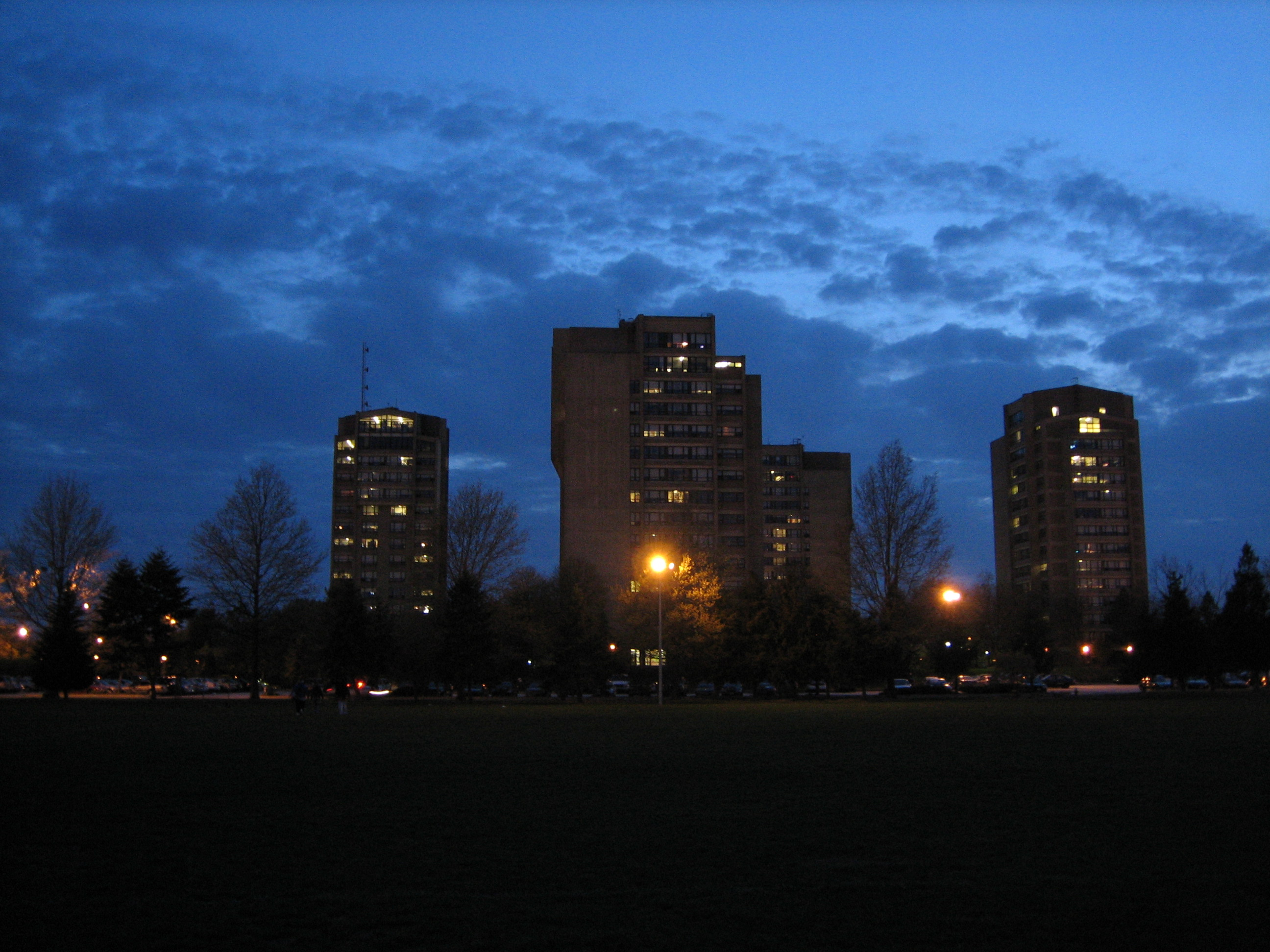 I took this picture on the campus of Hofstra University.